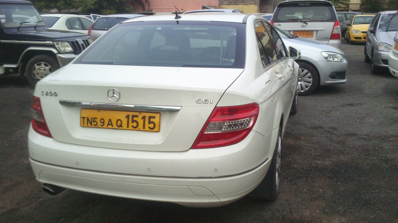 Call Taxi in Tamil Nadu, India